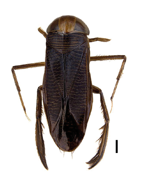 Scale bar = 1 mm